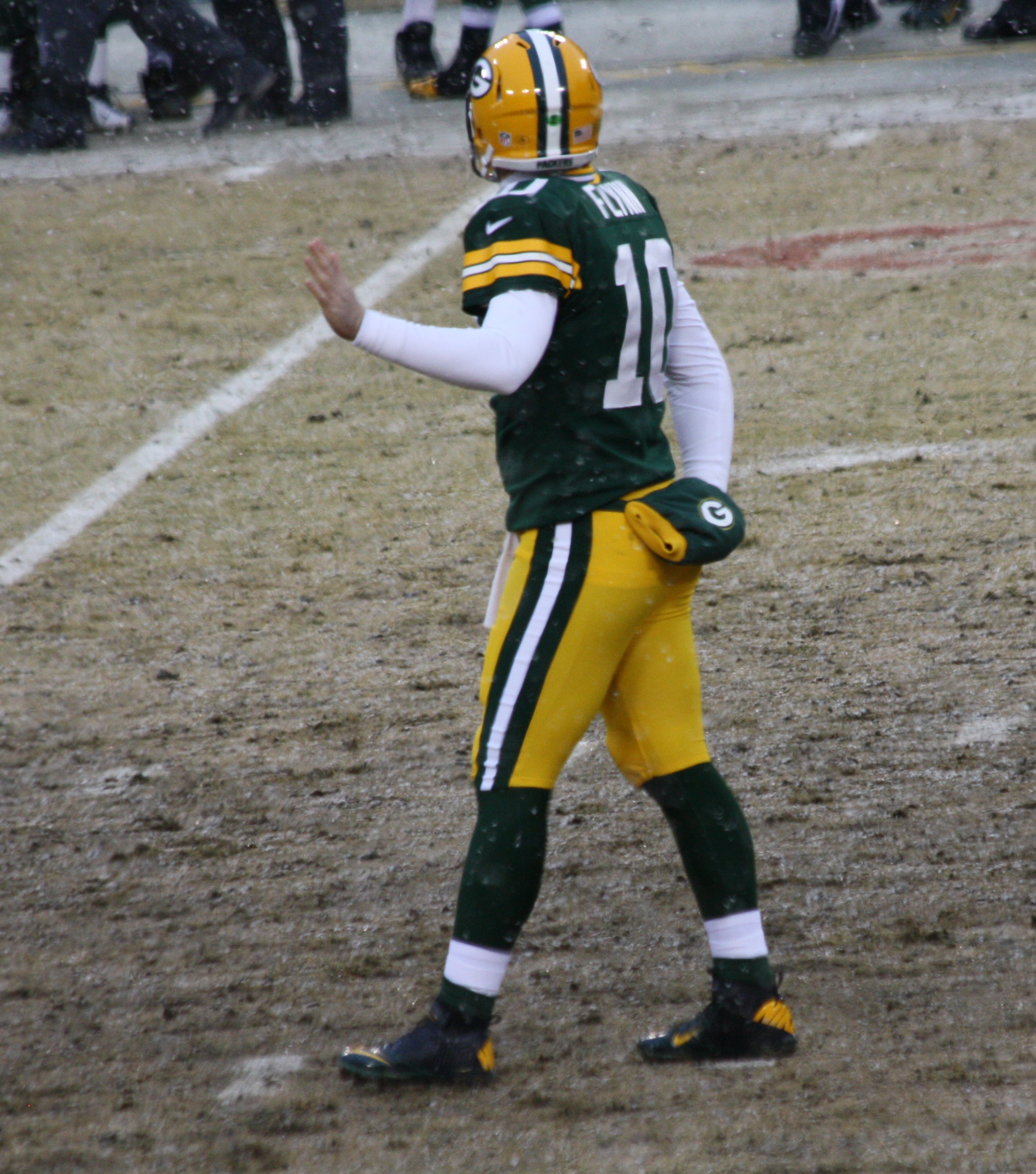 Green Bay Packers quarterback Matt Flynn barking signals against the Pittsburgh Steelers.